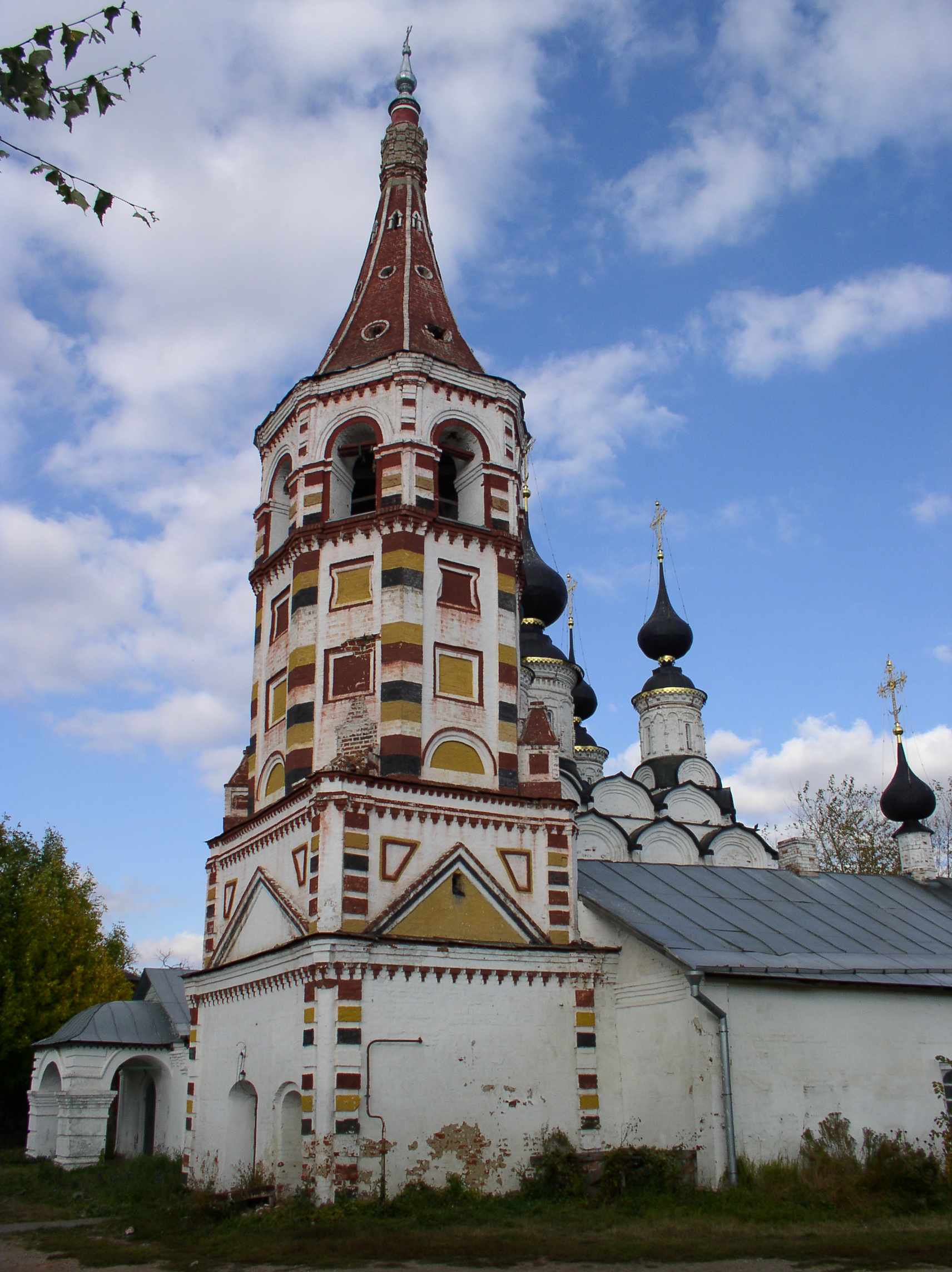 Saint Antipius and Saint Lazarus churches. Suzdal, Russia.